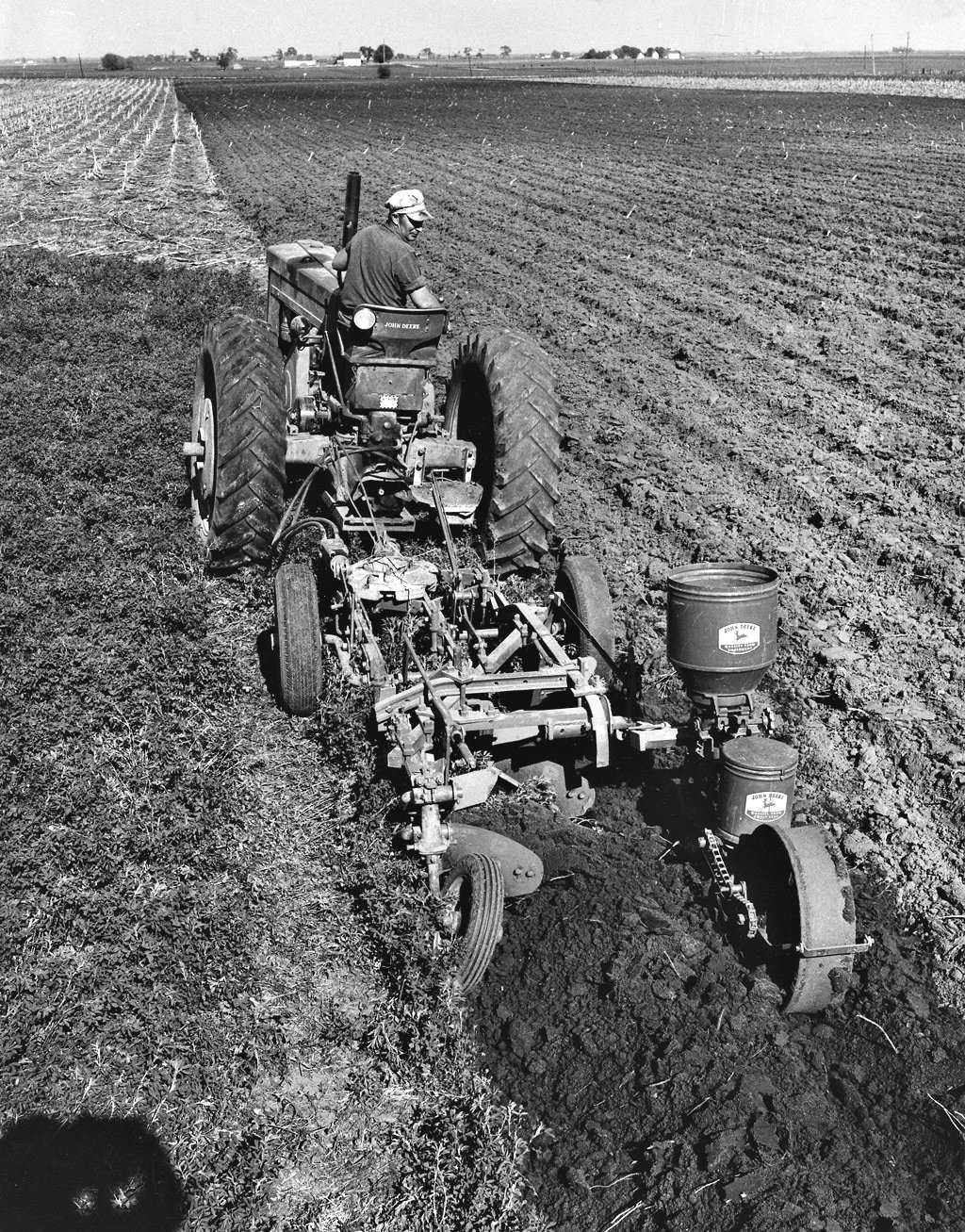 Tractor plowing field, DeKalb County, Illinois, 1958. During May 1958, I was on a Farm Journal assignment looking for innovative corn planting ideas. In DeKalb County , Illinois I used a tripod to shoot from my car top platform with a Speed Graphic. I usually used small F stops - probably F16 for this shot . The short published article was titled "Anytime I'm plowing, I'm planting" - a direct quote from the farmer.